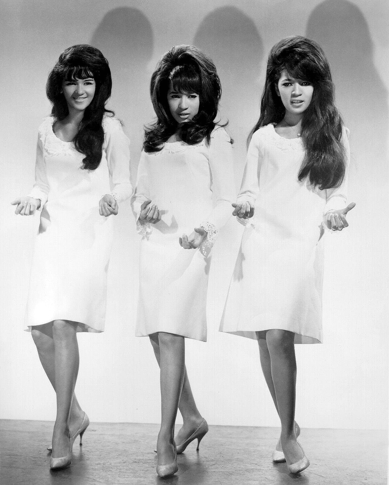 Publicity photo of the Ronettes.